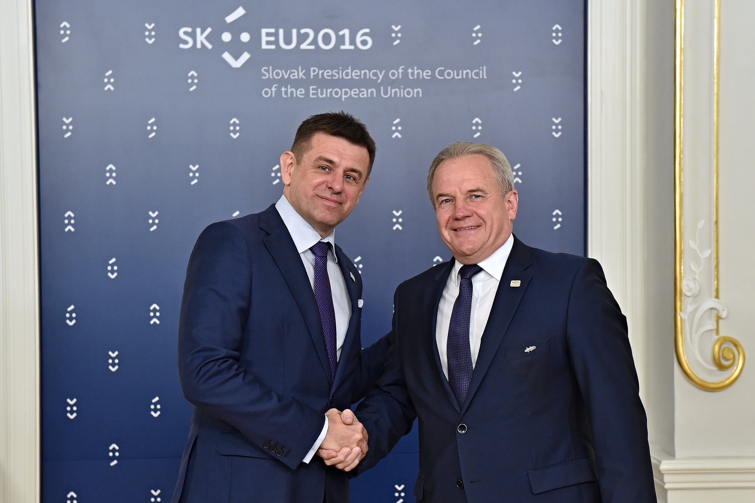 Lithuania, Mr. Kestutis Treciokas, Minister of Enviroment MINISTERIAL CONFERENCE AND INFORMAL MEETING ENVIRONMENT/CLIMATE MINISTERS. Photo Rastislav Polak